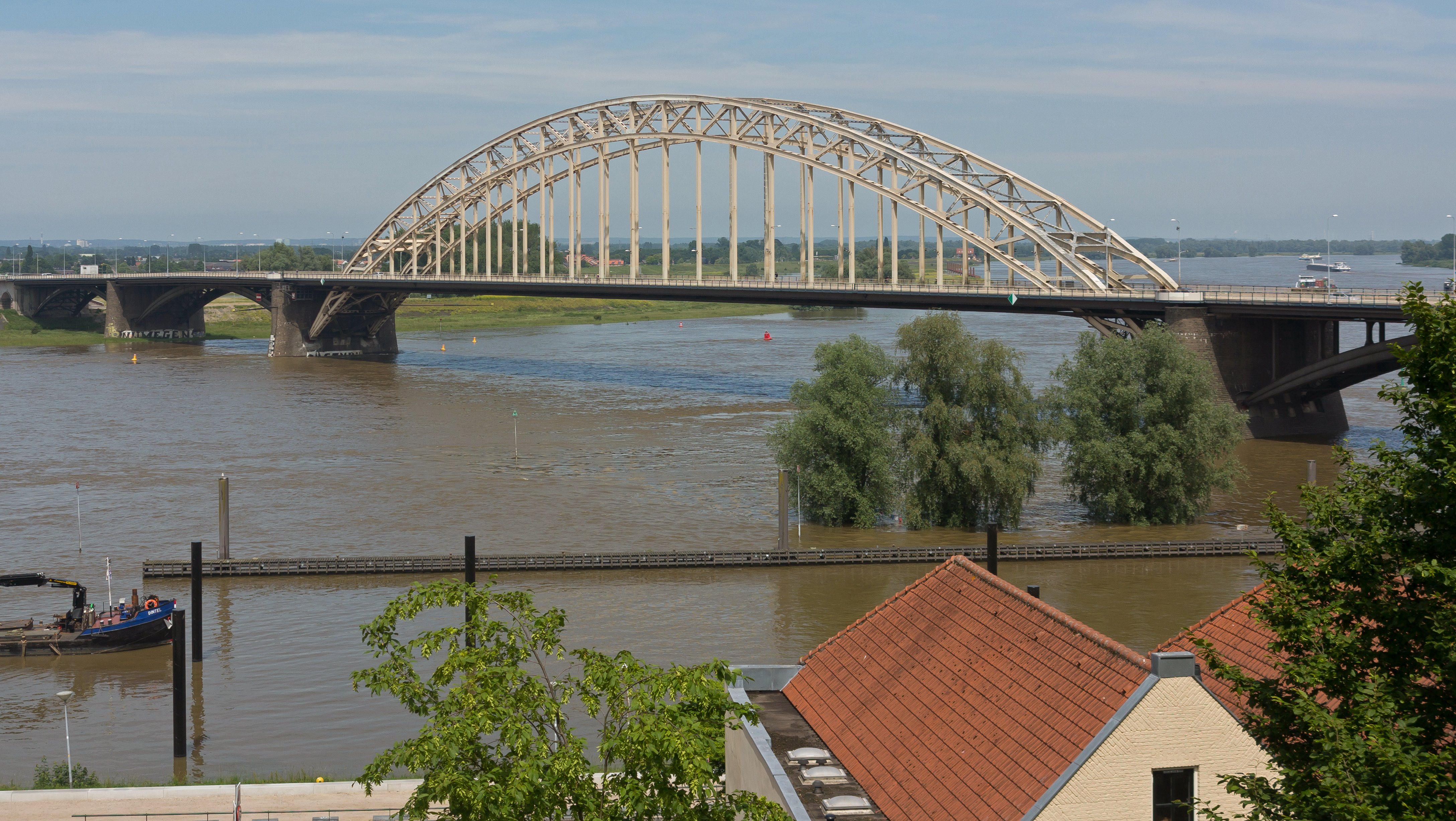 Nijmegen, bridge (de Waalbrug) from het Valkhof